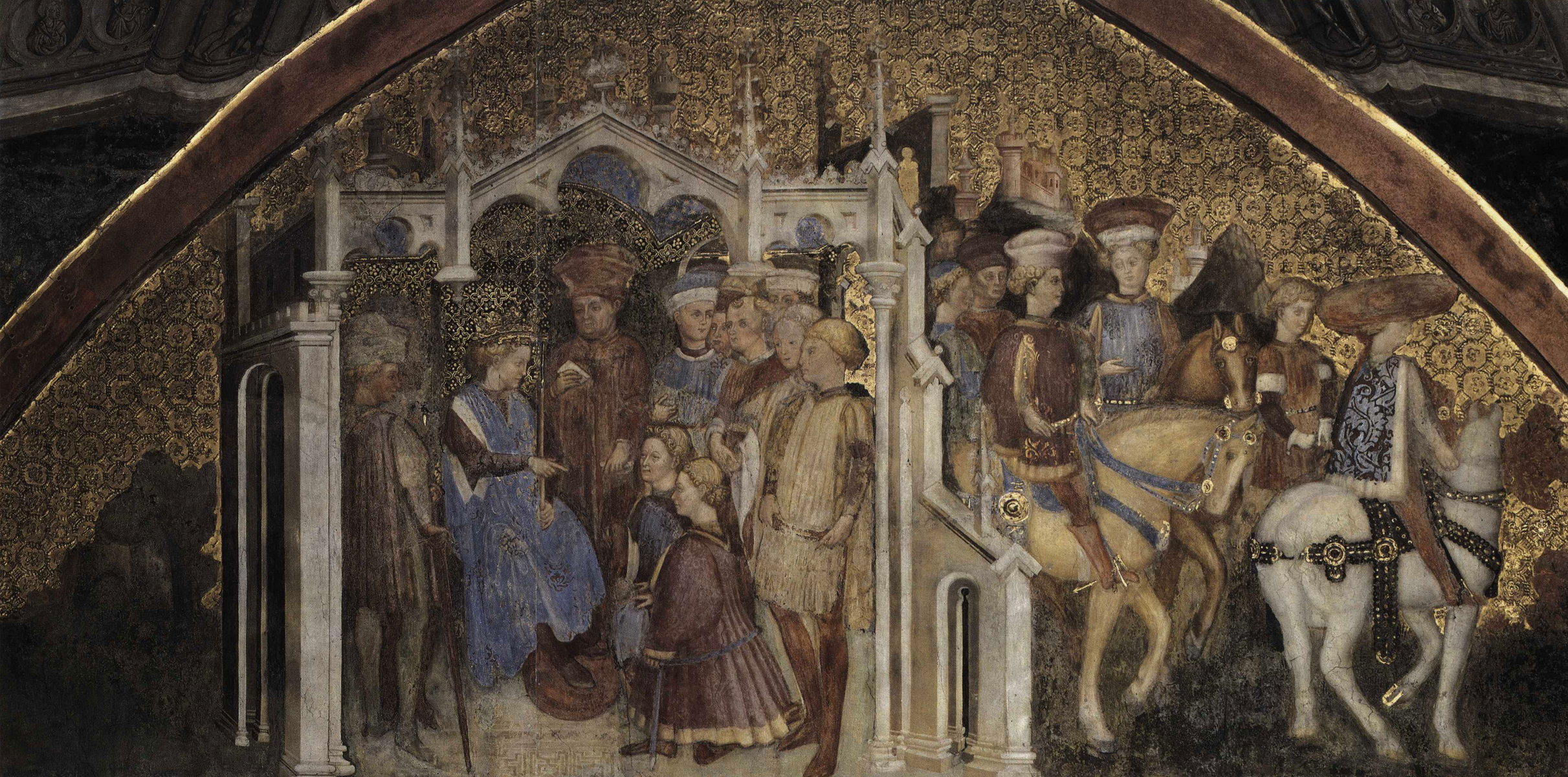 Authari, King of the Lombards, sends ambassadors to Childebert, King of the Franks, to ask the hand of his sister Ingarde.